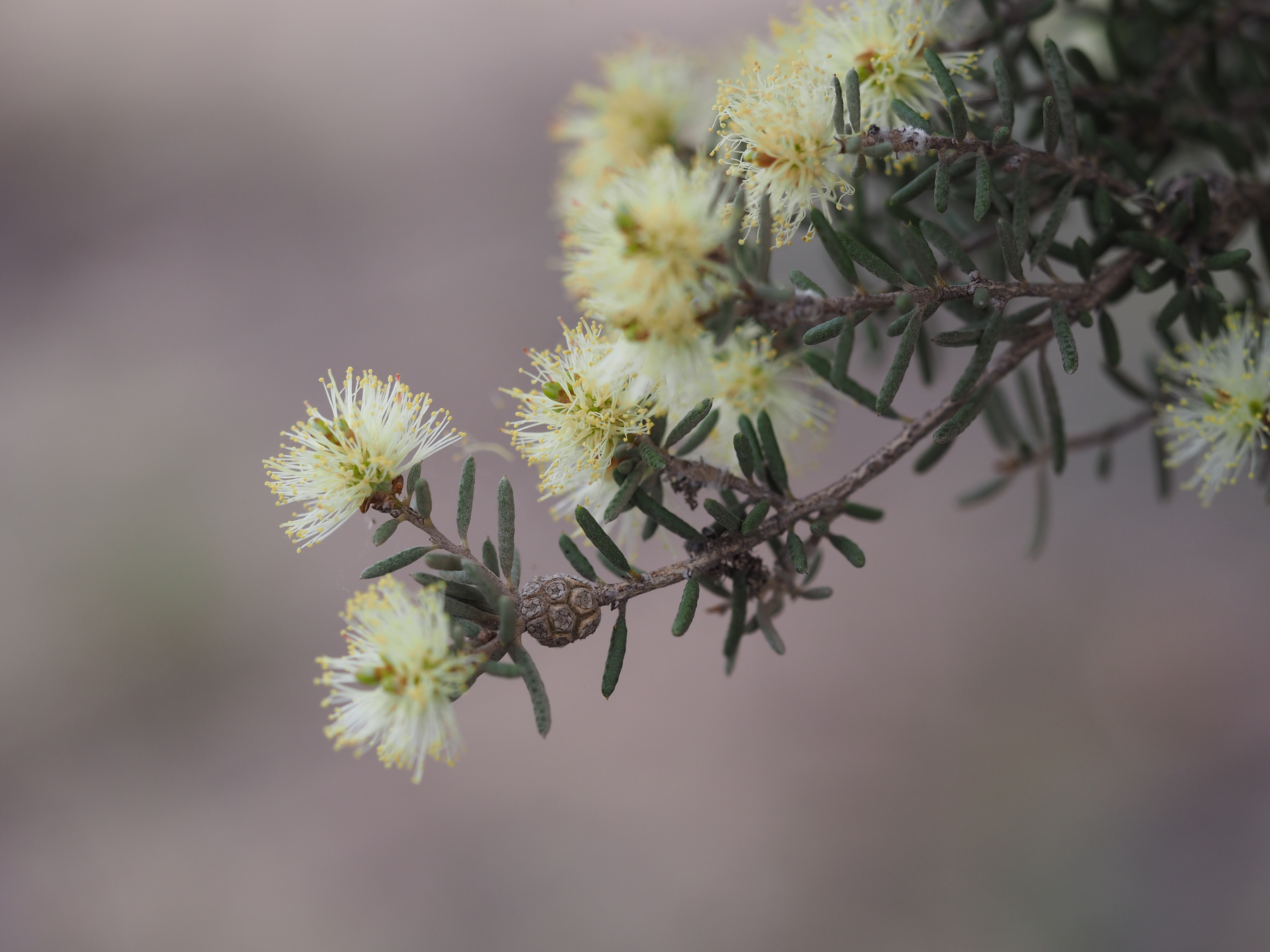 Melaleuca brophyi in Holt Nature Reserve near Salmon Gums